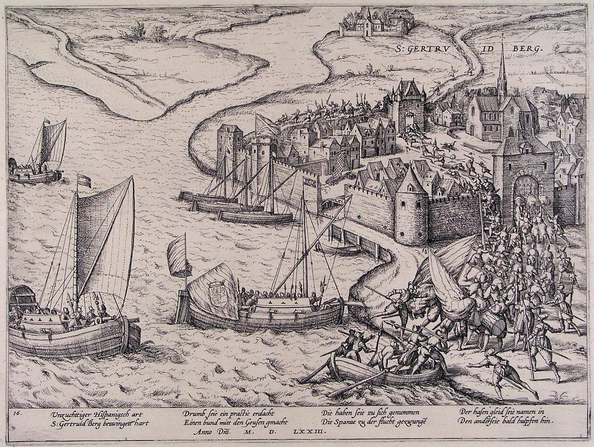 The capture of St. Geertruidenberg in 1573 by the Geuses. Etching. Rotterdam, Museum Boijmans Van Beuningen Prentenkabinet (inv.no. BdH 19782 (PK)).